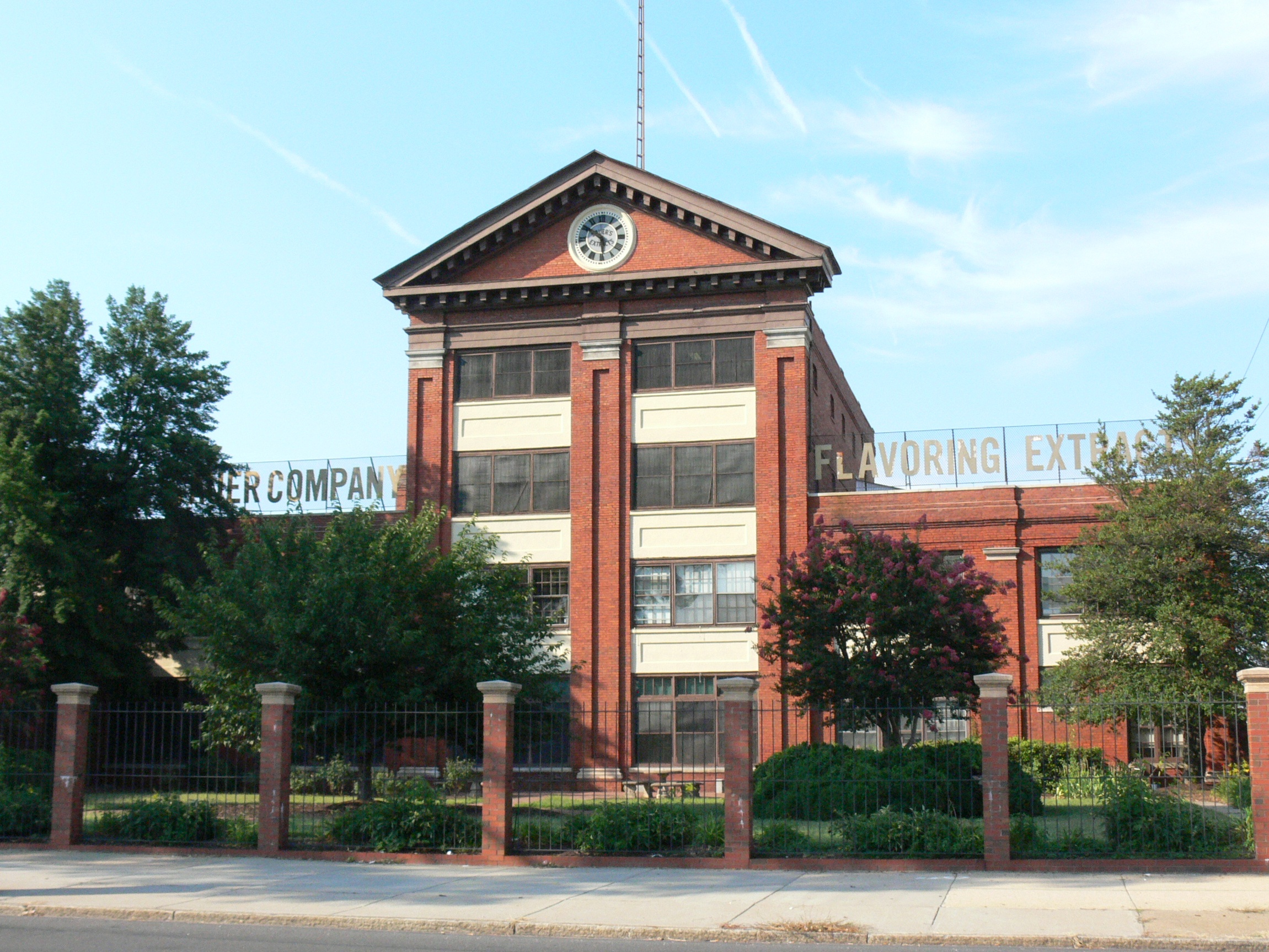 The brick headquarters and main plant for the C.F. Sauer Company, manufacturers of spices and extracts, part of the West Broad Street Commercial and Industrial Historic District in Richmond, Virginia.